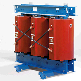 Cast Resin Transformer